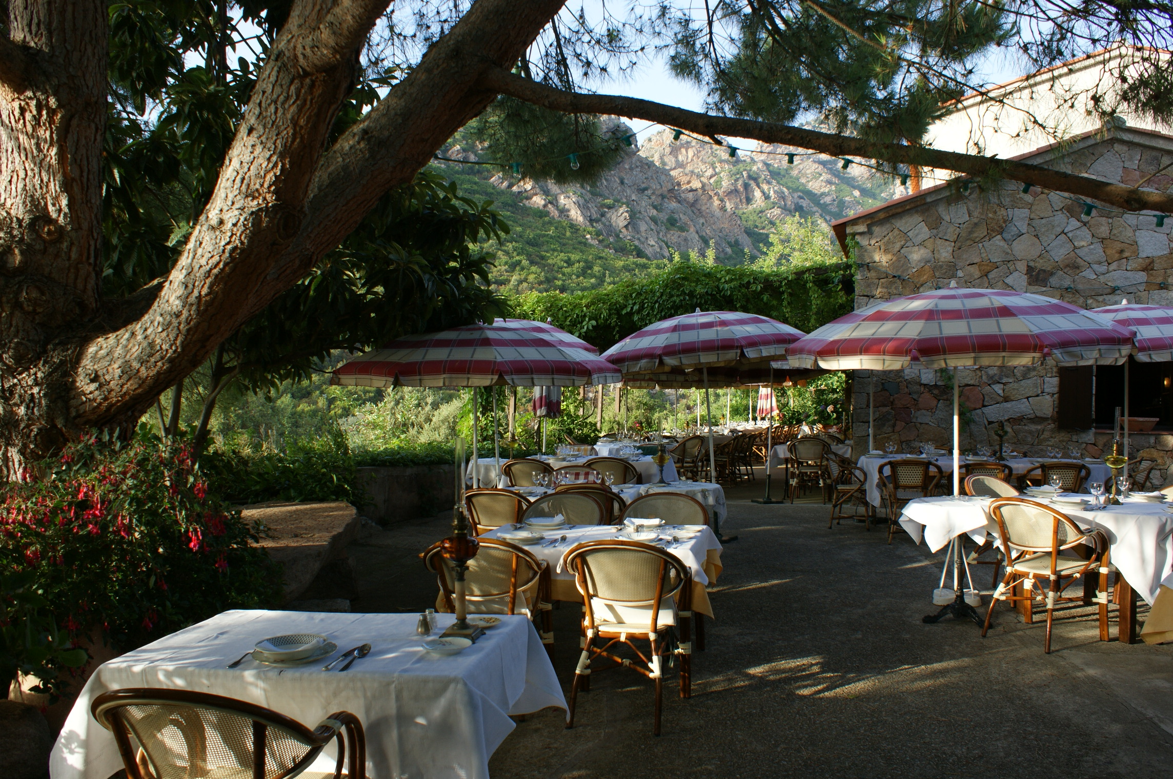 Restaurant Chez Seraphin, Peri, Corsica, France